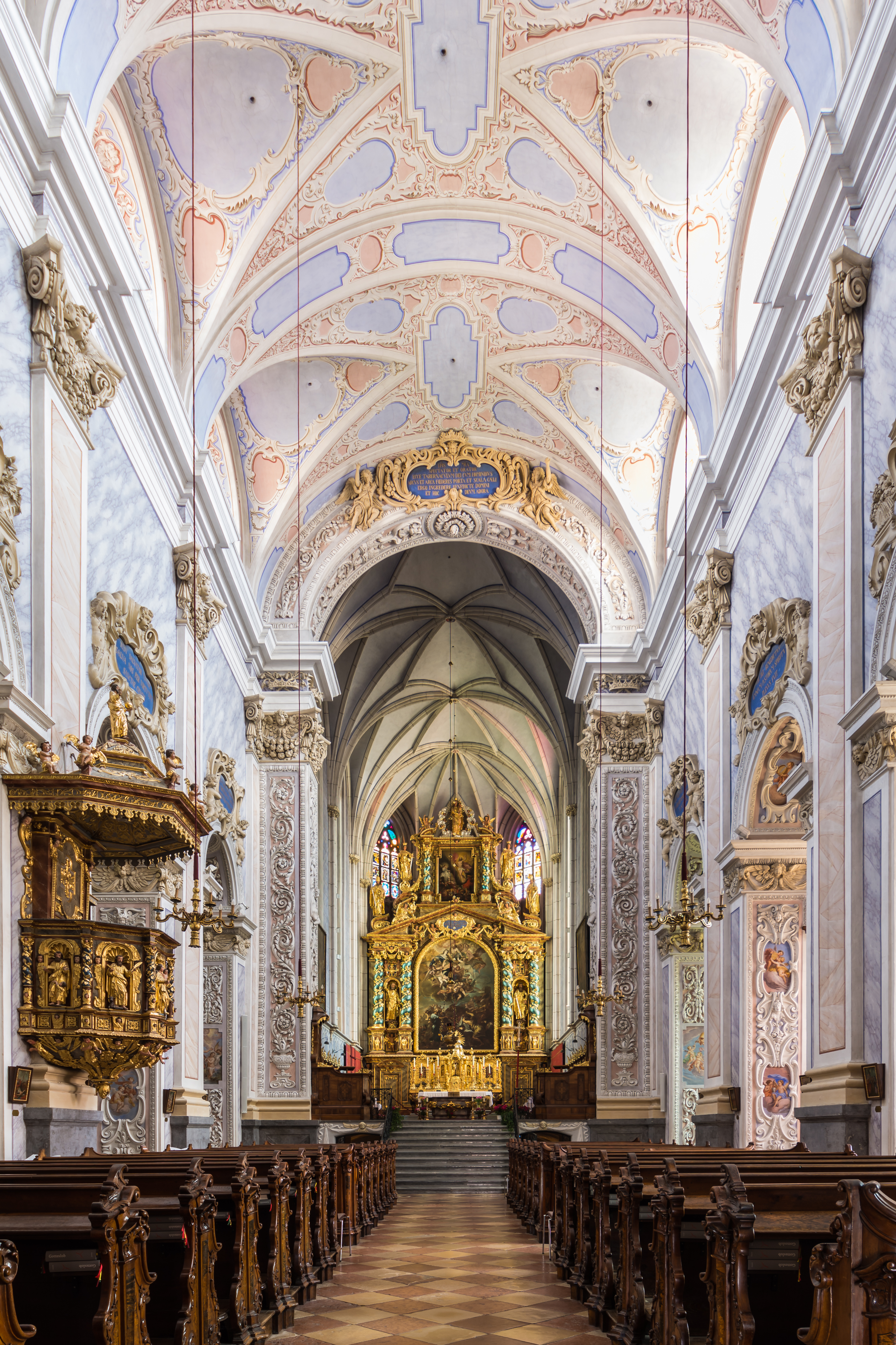 Nave and high altar of Göttweig Abbey Church, Lower Austria